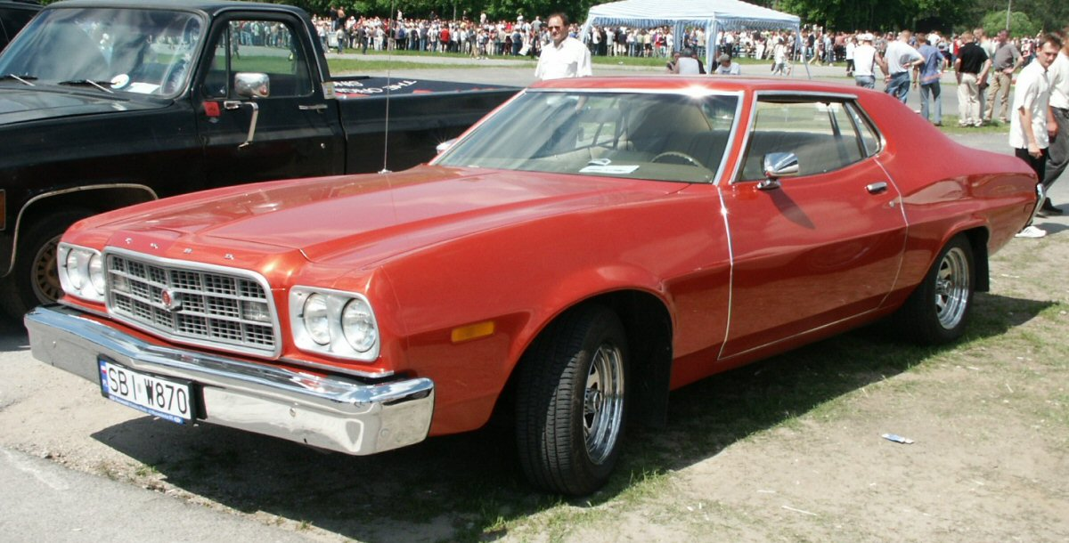 1973 Ford Gran Torino, photographed in Kielce Race Track, Poland